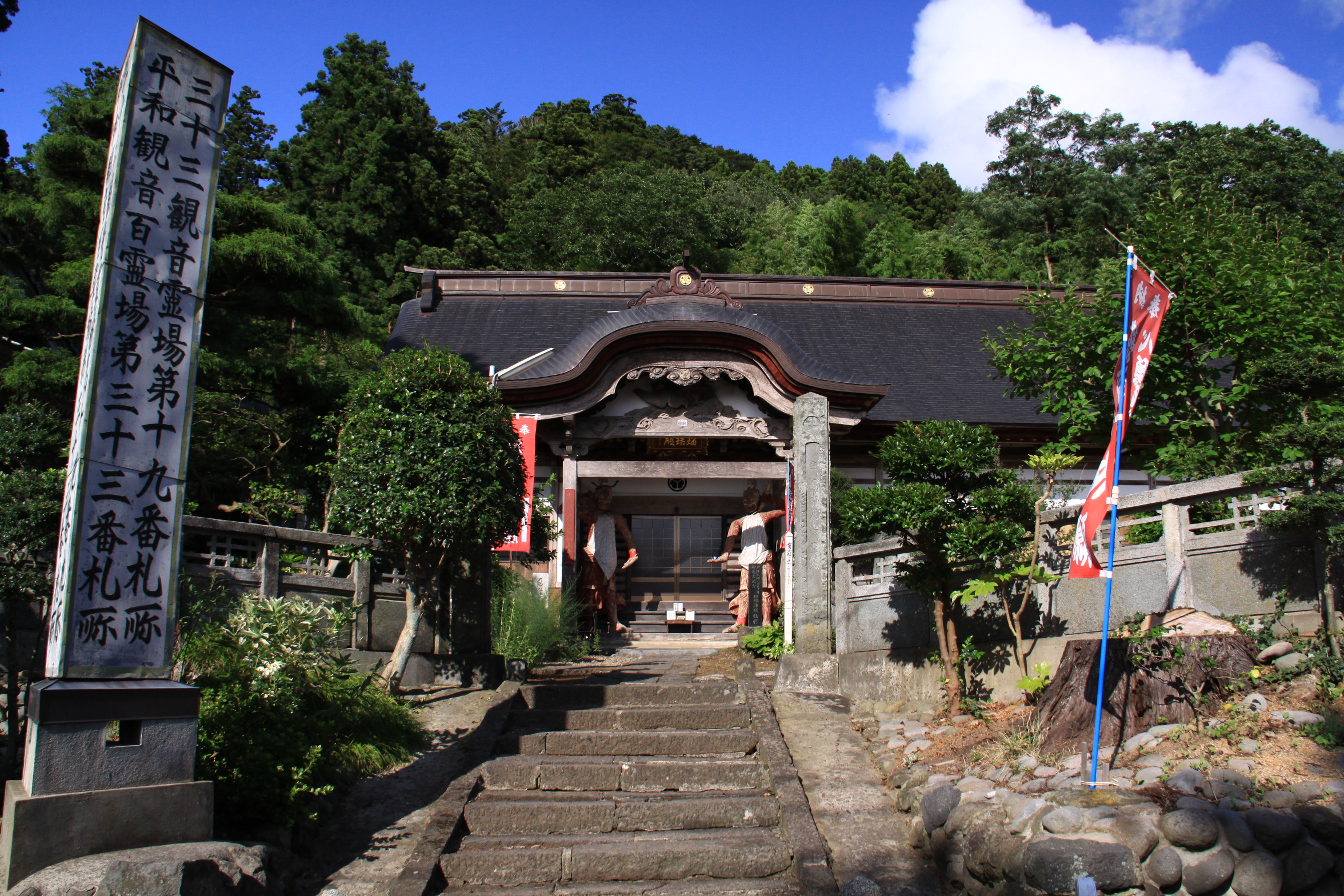 Ryuuzuji